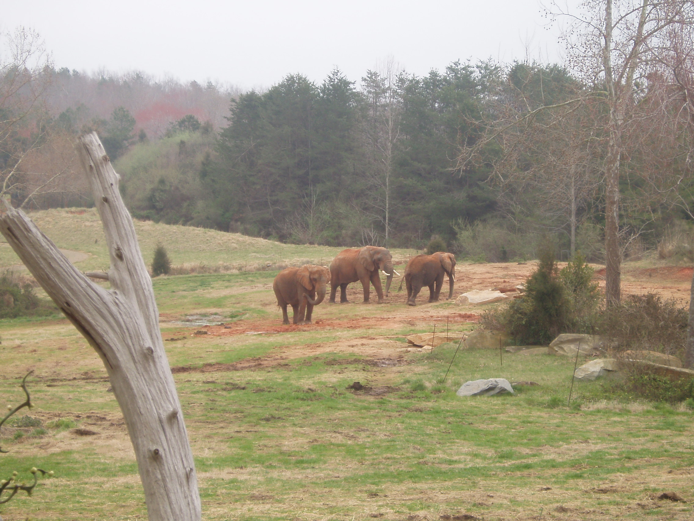 Several African Elephants roam the Watani Grasslands exhibit, North Carolina Zoo.